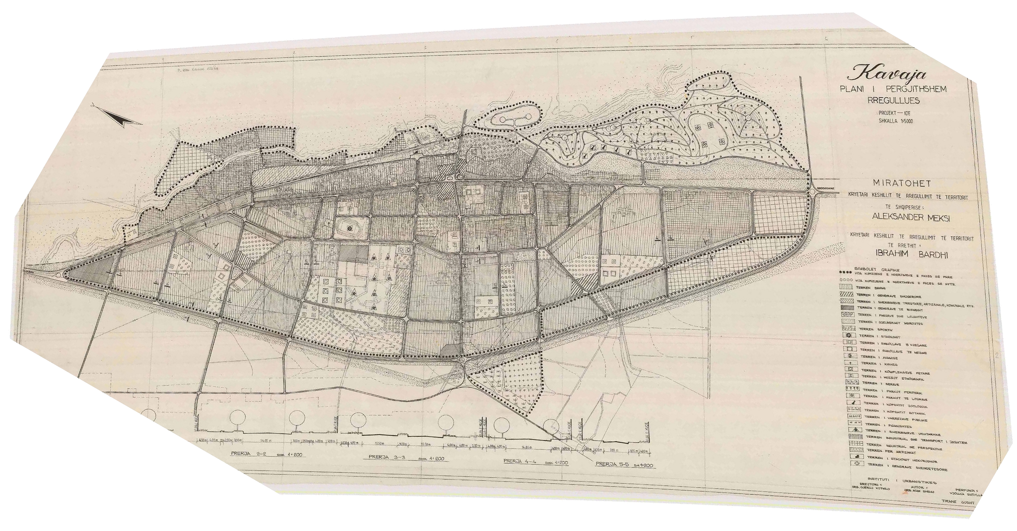 Plani Rregullues i Kavajës